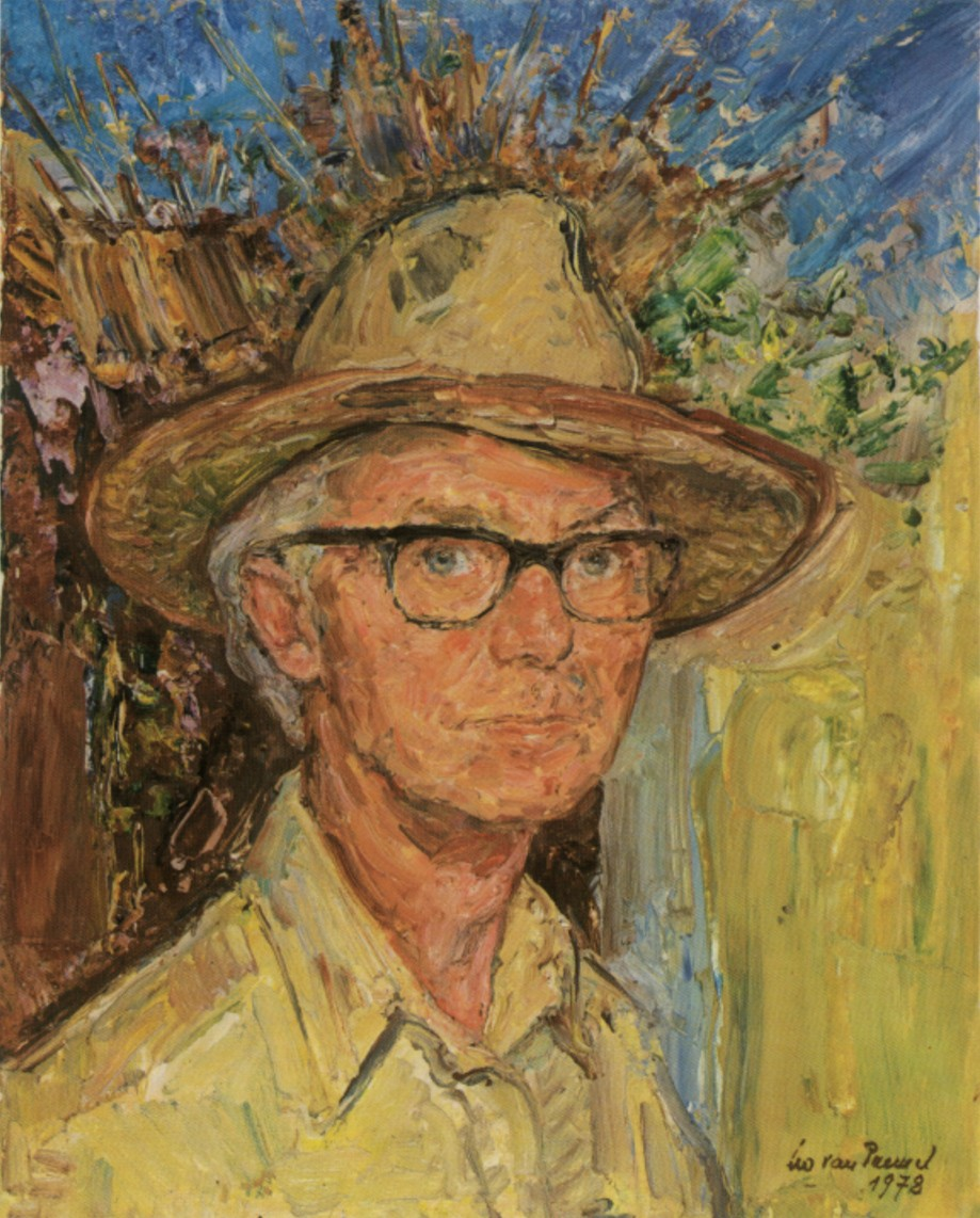 Self-portrait (Provence, France). (40x50cm)